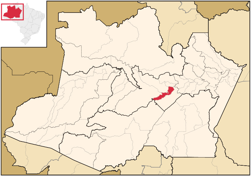 Map of Amazonas highlighting Anoria.